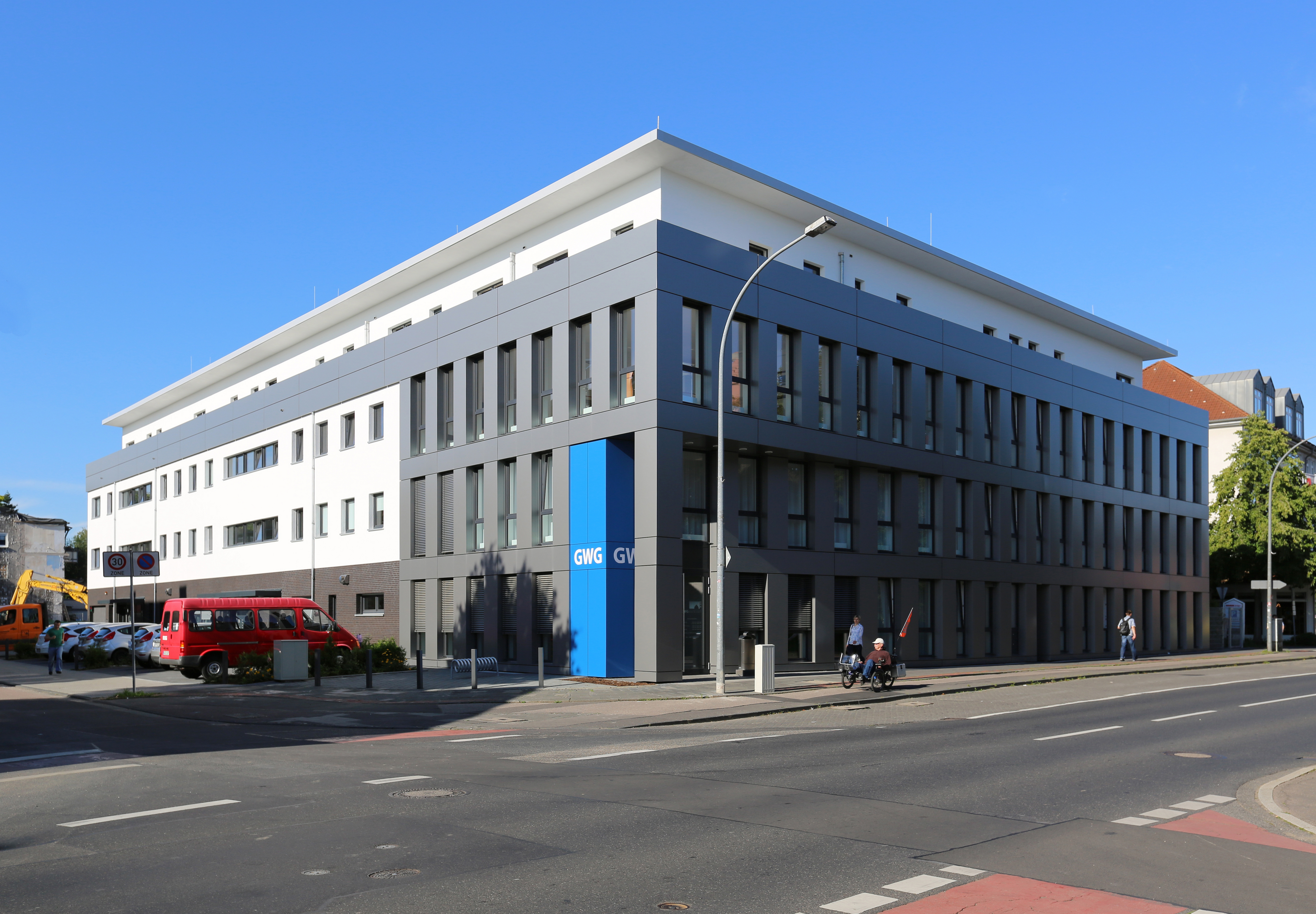 GWG Rhein-Erft, place of business in Hermülheim, North Rhine-Westphalia, Germany